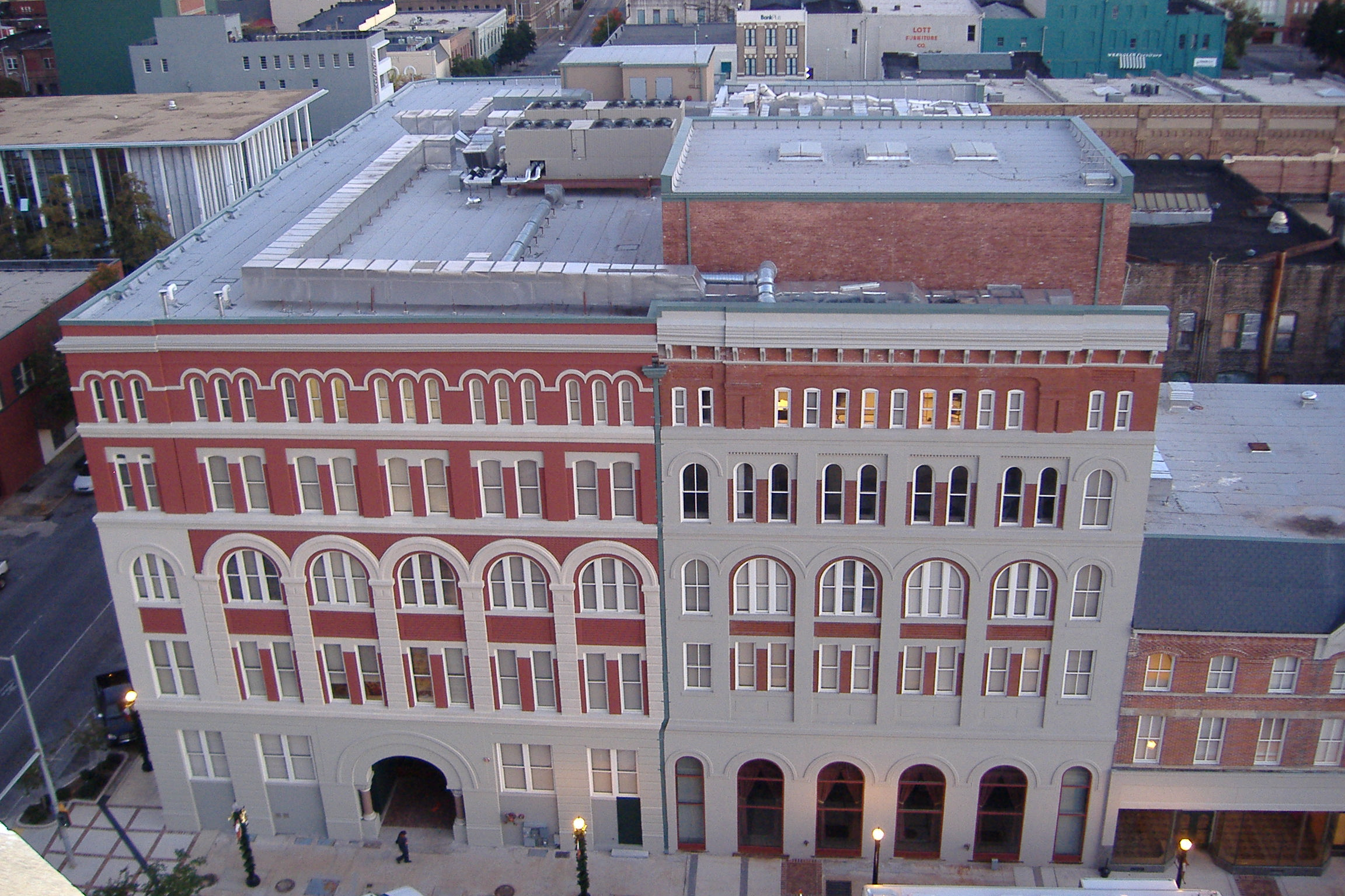 MSU Riley Center as seen from atop the Threefoot Building